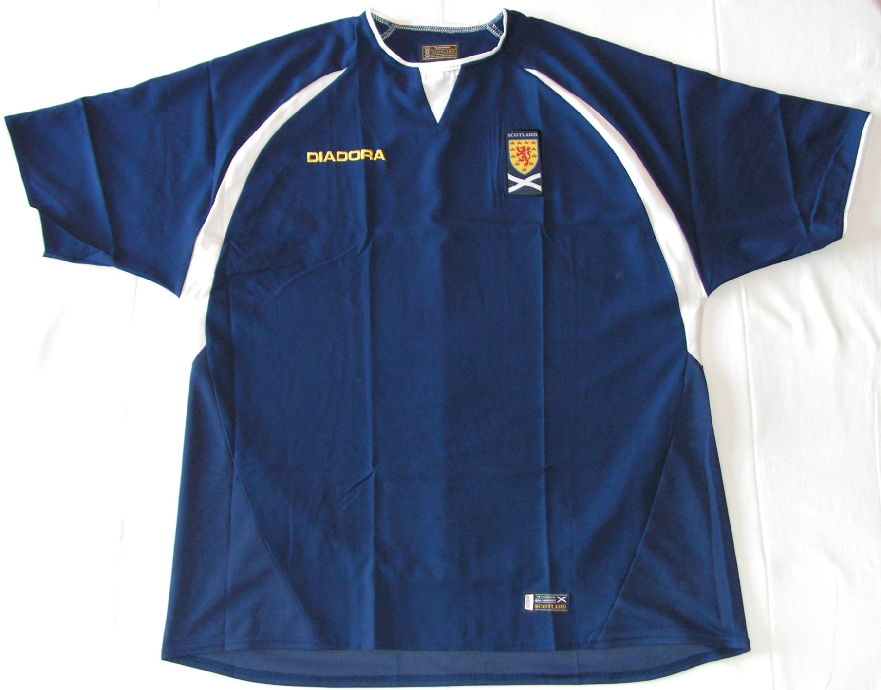 Scotland Football team home jersey 2004